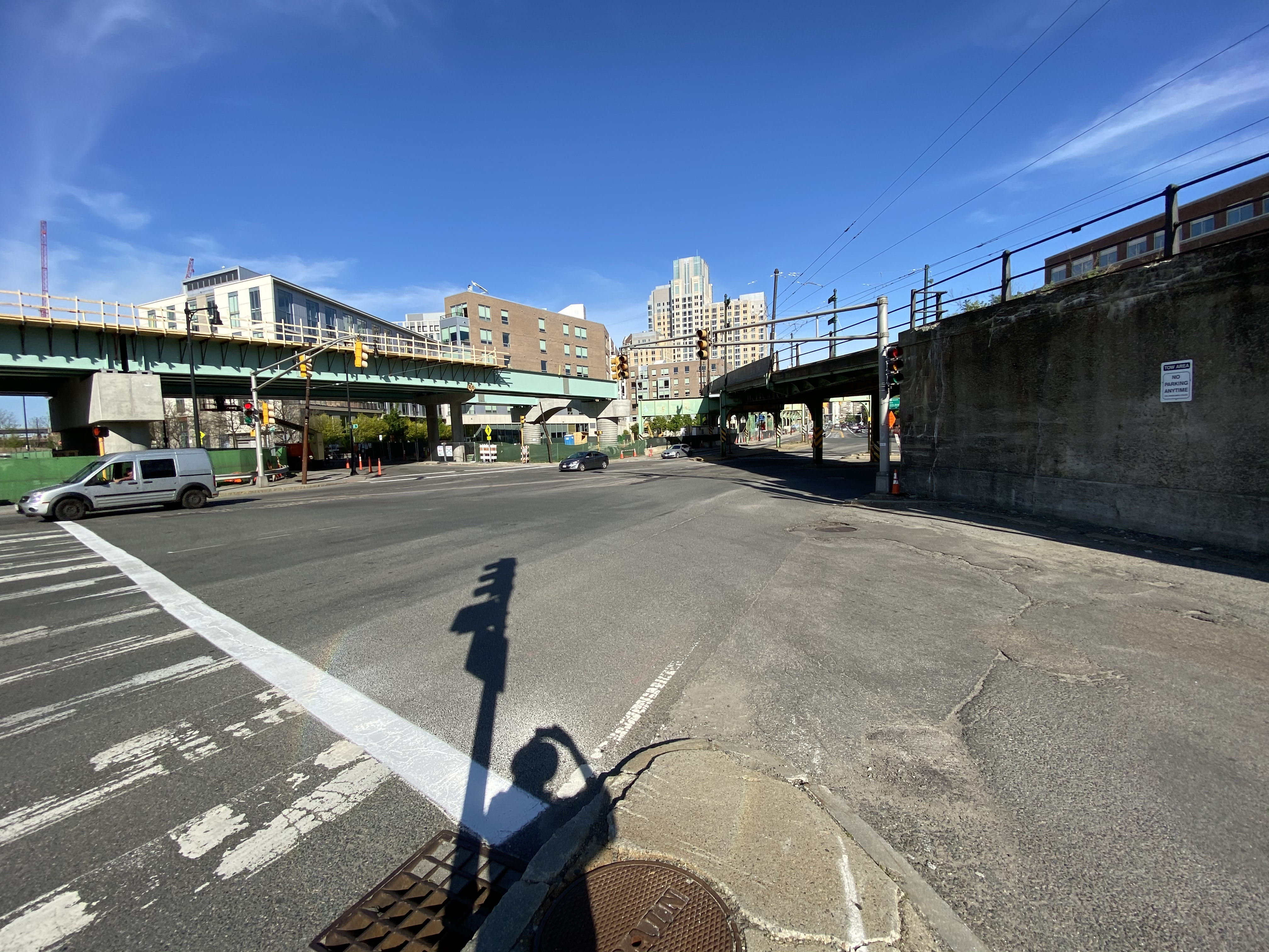 The old Lechmere Elevated (right) and construction of the new viaduct (left) on May 21, 2020, three days before Lechmere station closed for the demolition of the old viaduct and the construction of the new station and viaduct. Note the near complete absence of traffic at 5pm on a major road during what would normally be a Thursday evening rush hour, due to the COVID-19 pandemic in Massachusetts.